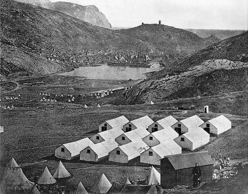 British Army camp at Balaklava in the Crimean War